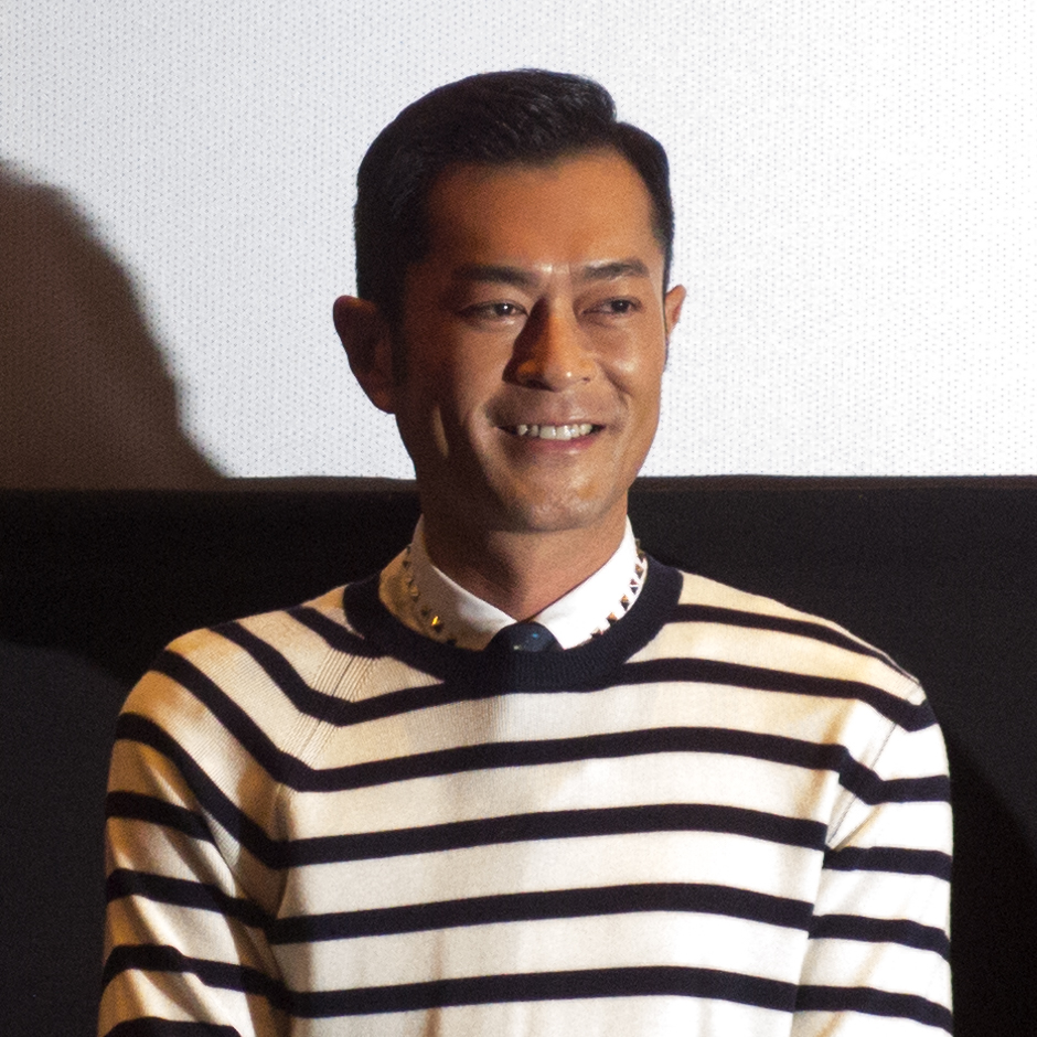 LOUIS KOO 2017-08-15 HKIFF SUMMER 2017